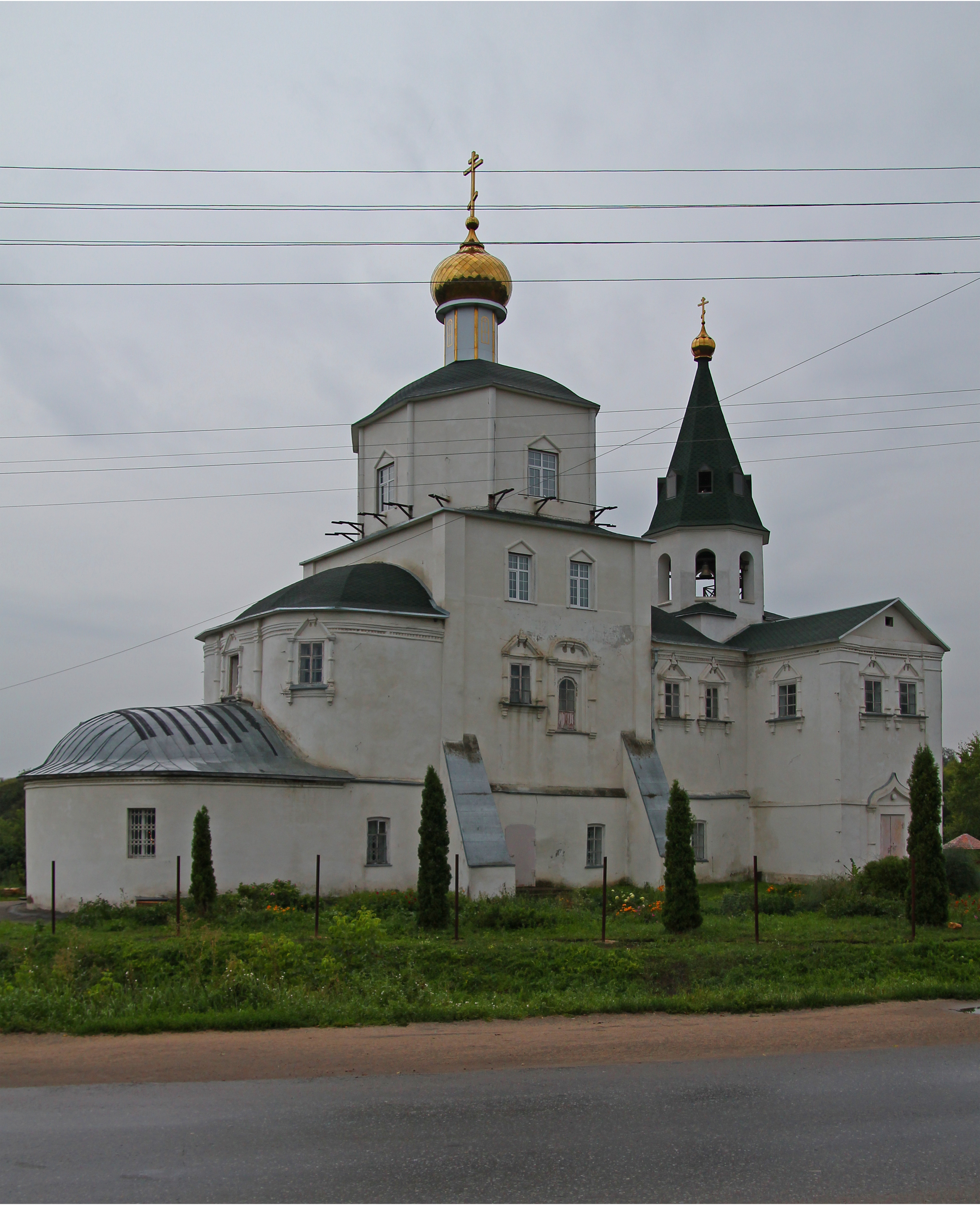 Church of the Ascension of Christ in Mtsensk (Russia)